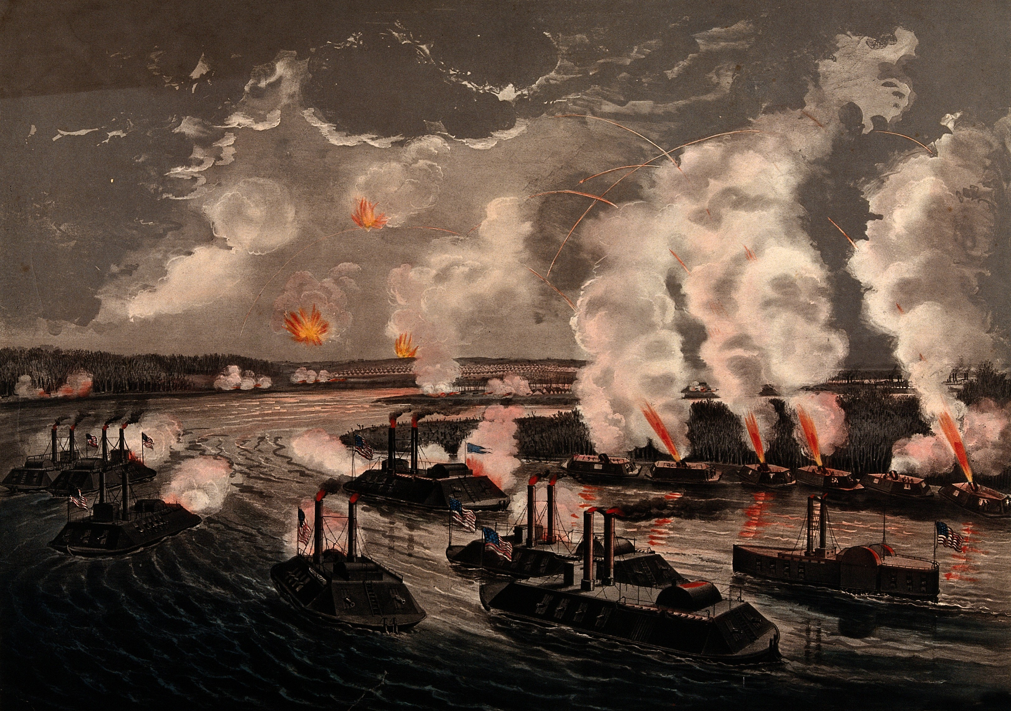 The bombardment and capture of Island 'Number Ten' on the Mississippi River, April 7th 1862: Federal gunboats and mortar boats are shown firing at the Confederate fortifications on the island. Colour lithograph, 1862. Iconographic Collections